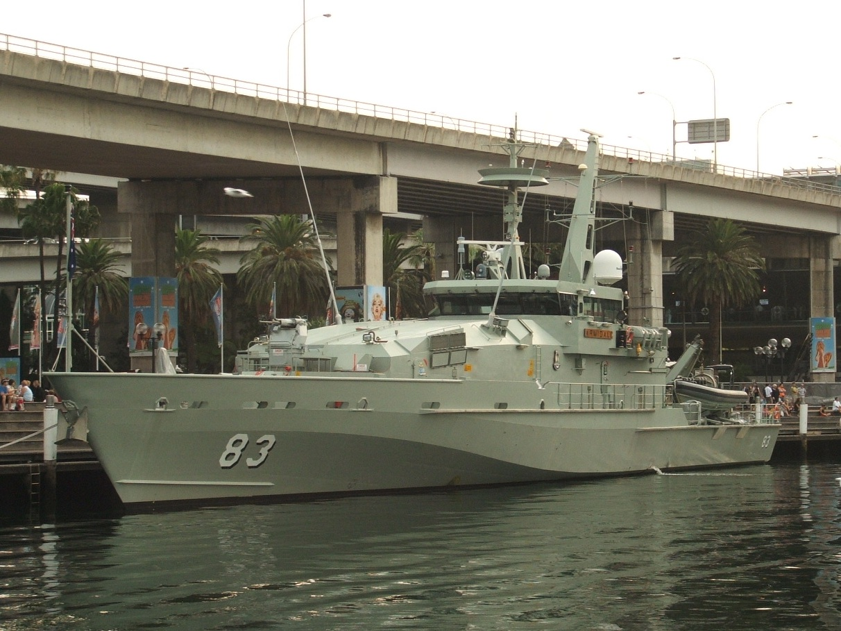 Australian Armidale Class Patrol Boat HMAS Armidale alongside at Darling Harbour, Sydney, Australia on 29 January 2008. Armidale was one of three ships present for the 2008 Sea Power Conference held at the Sydney Convention Centre. HMAS Armidale was the First Armidale Class Patrol boat with the pennant of ACPB 83 This image is cropped from the original photograph. Both this image and the original photograph belong to and were modified by Saberwyn.